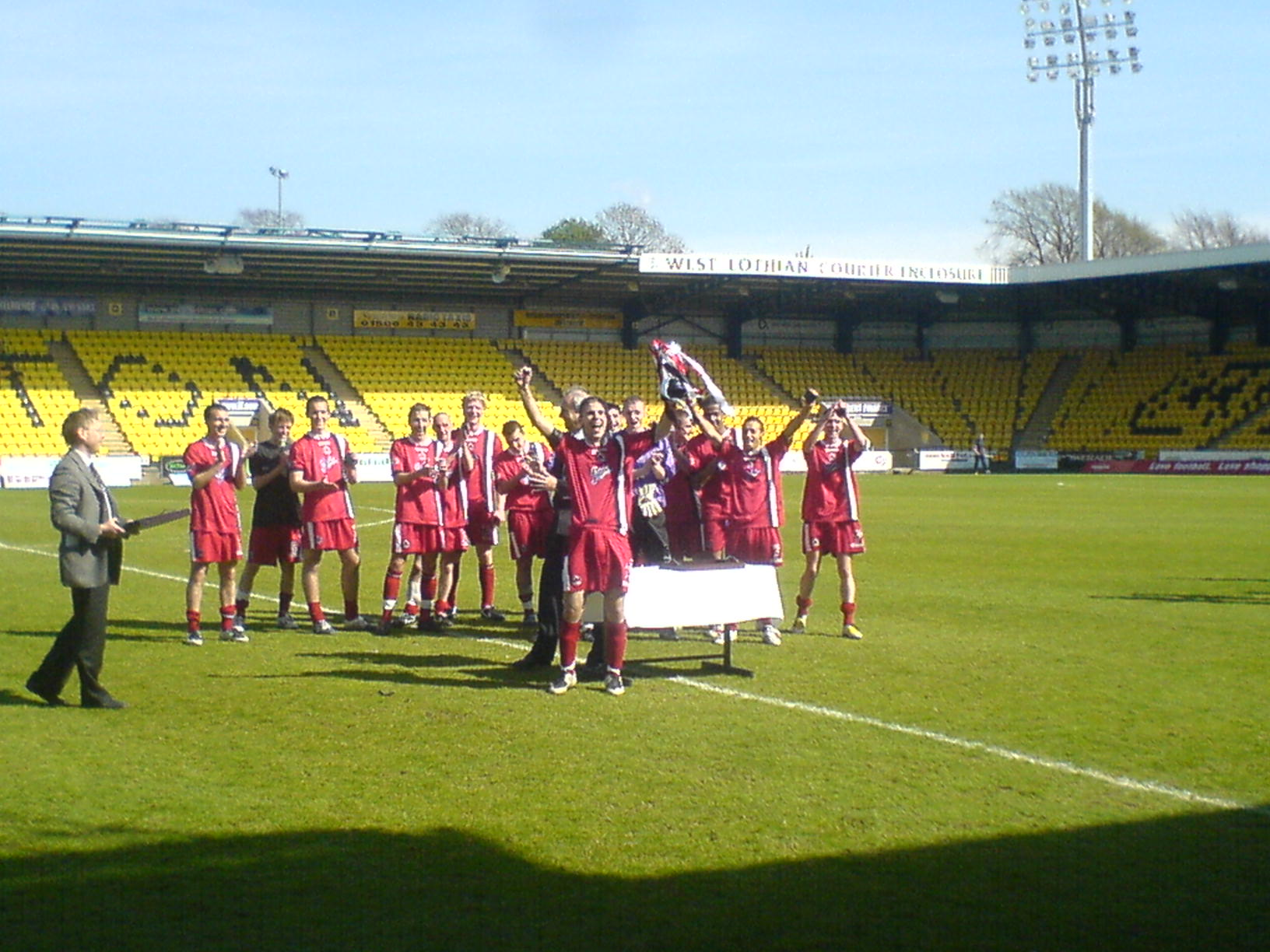 i created this image, clyde lifting the reserve league cup, almondvale stadium, may 2008